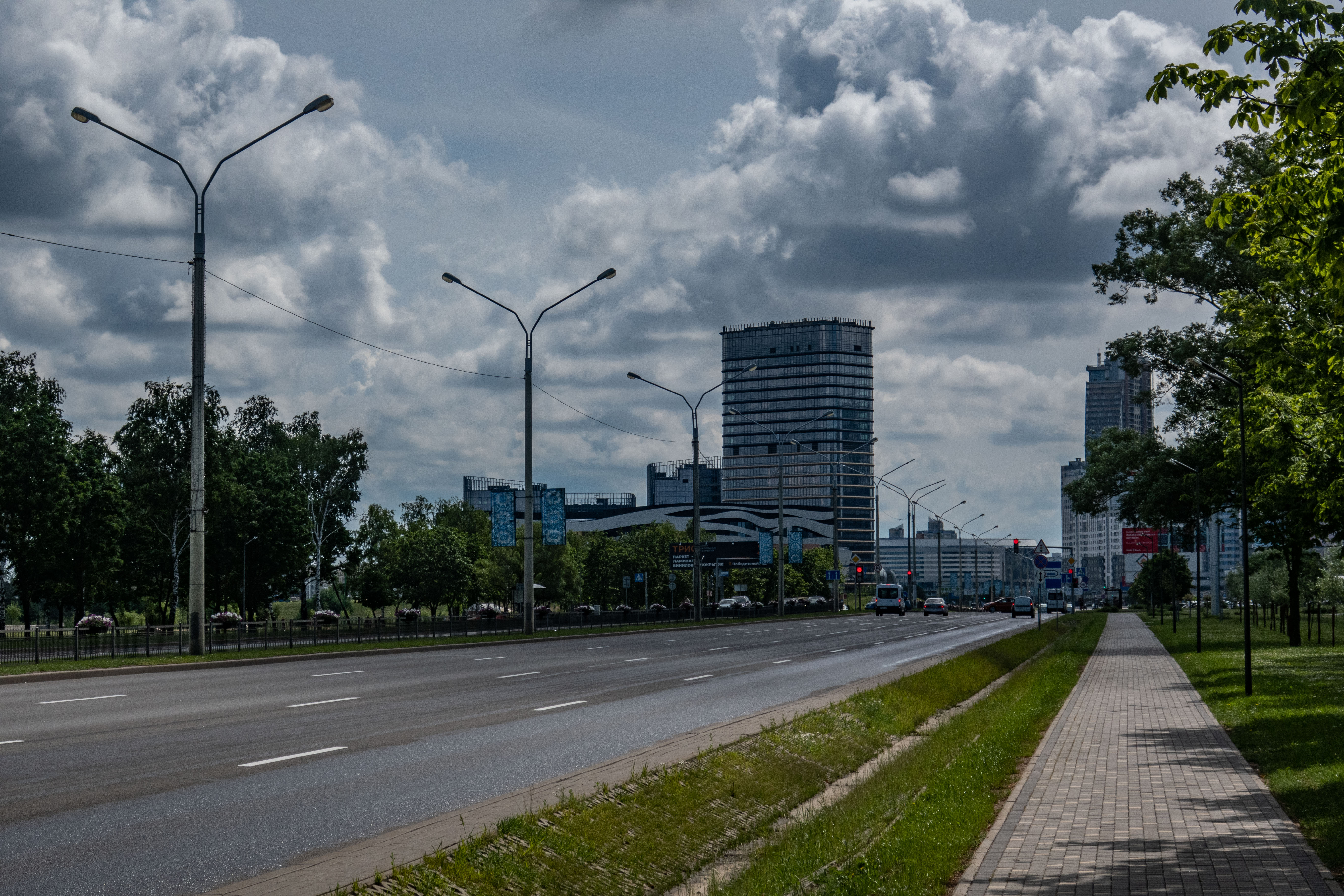 Pieramožcaŭ avenue. Minsk, Belarus